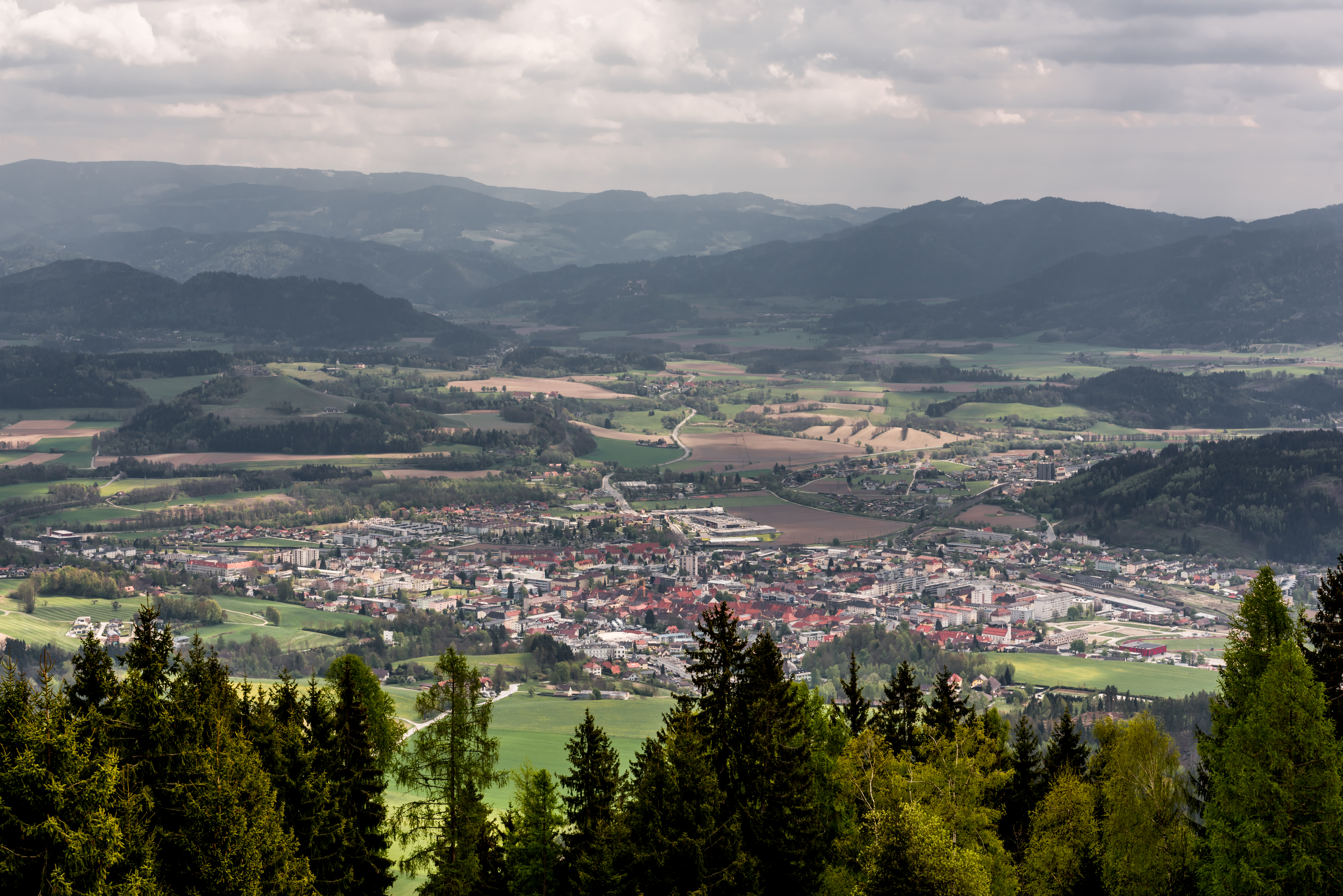 View of St. Veit an der Glan from Lorenziberg, Carinthia, Austria, EU